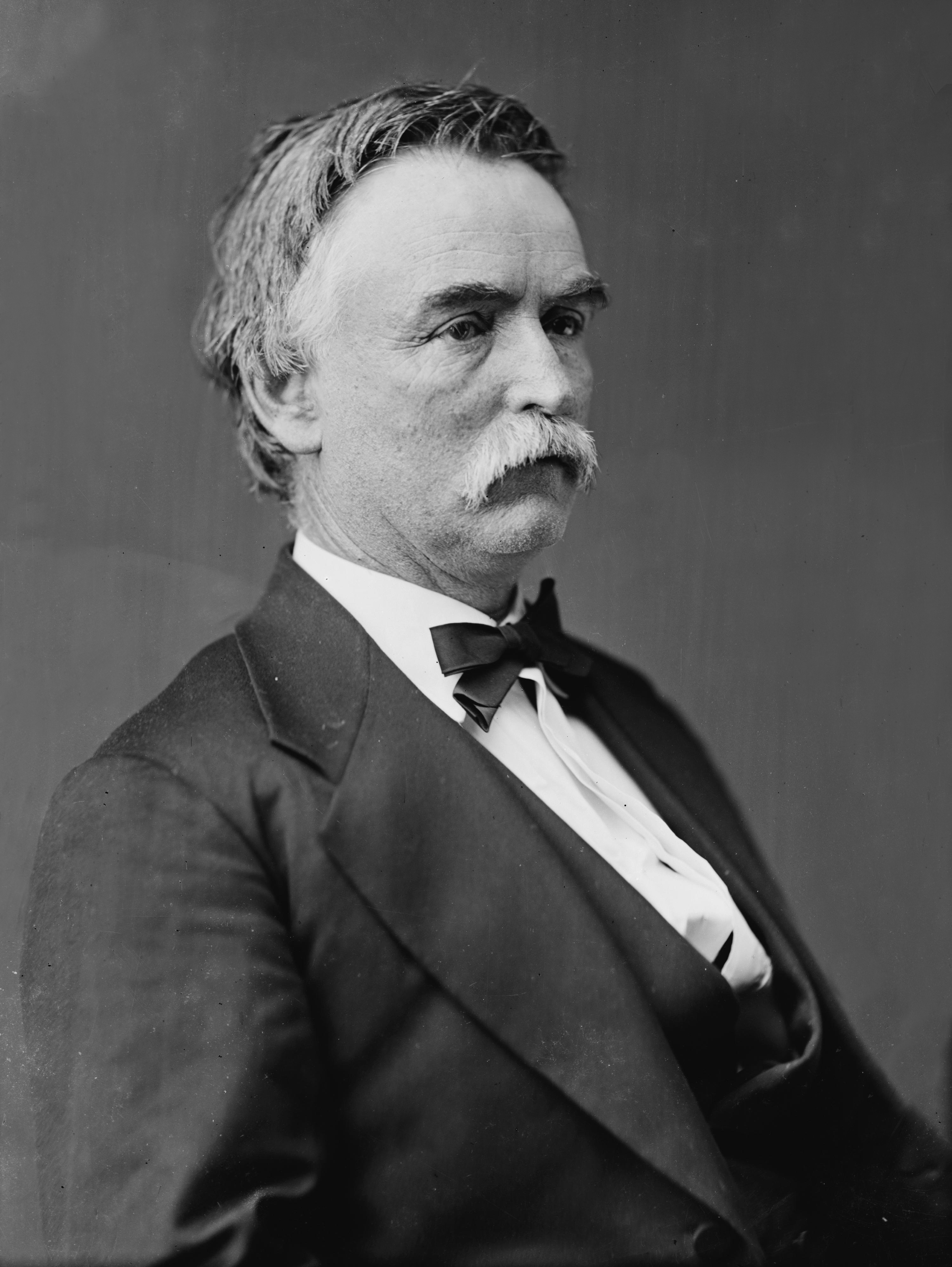 J. Proctor Knott. Library of Congress description: "Hon. Jas. Proctor Knott of Ky."